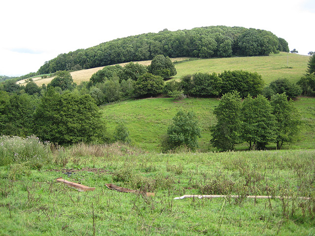 View North across the valley Valley Brook running through east/west. The edge of Astridge Wood tops the hill in the adjoining gridsquare.